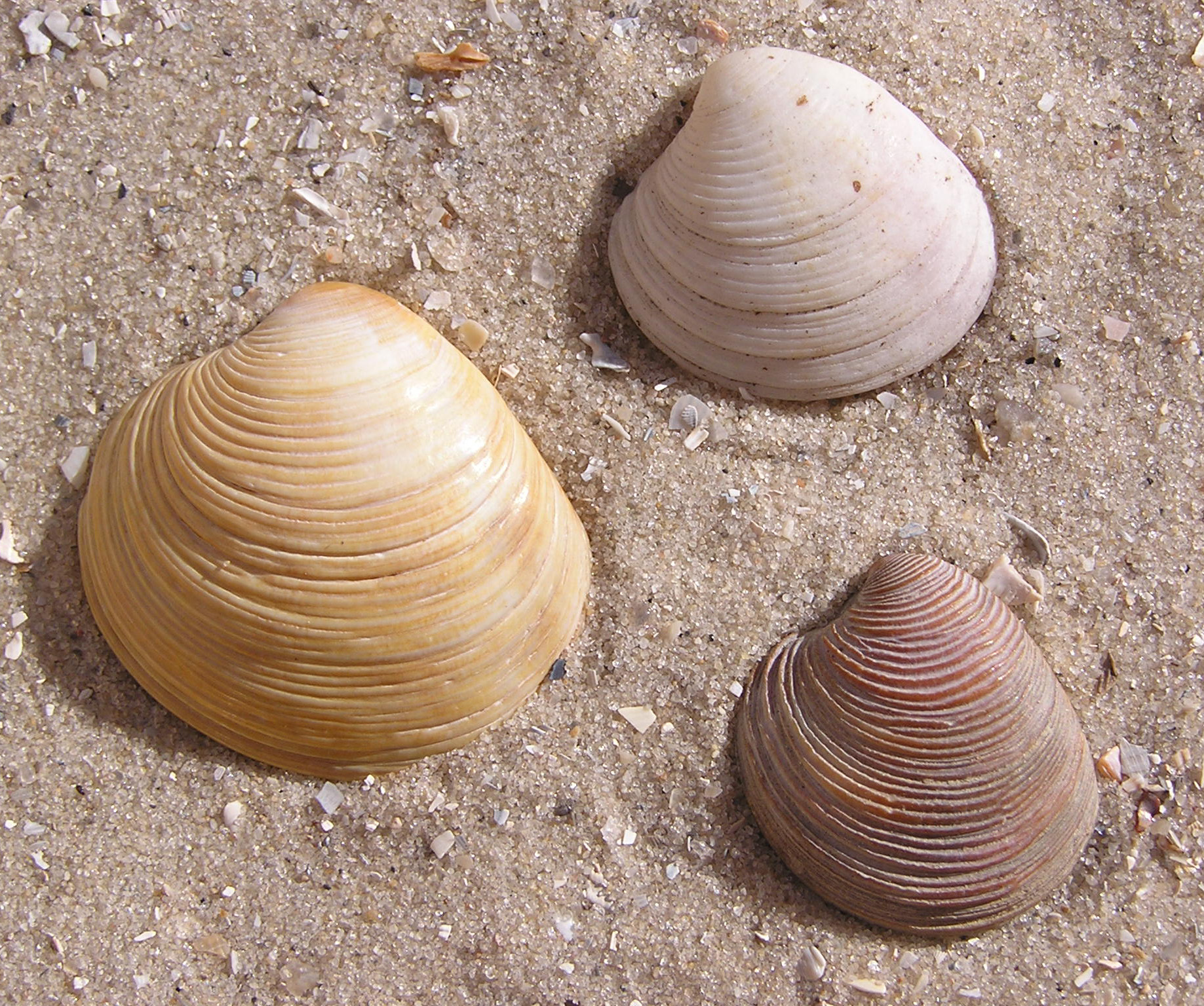 3 Chamelea gallina shells